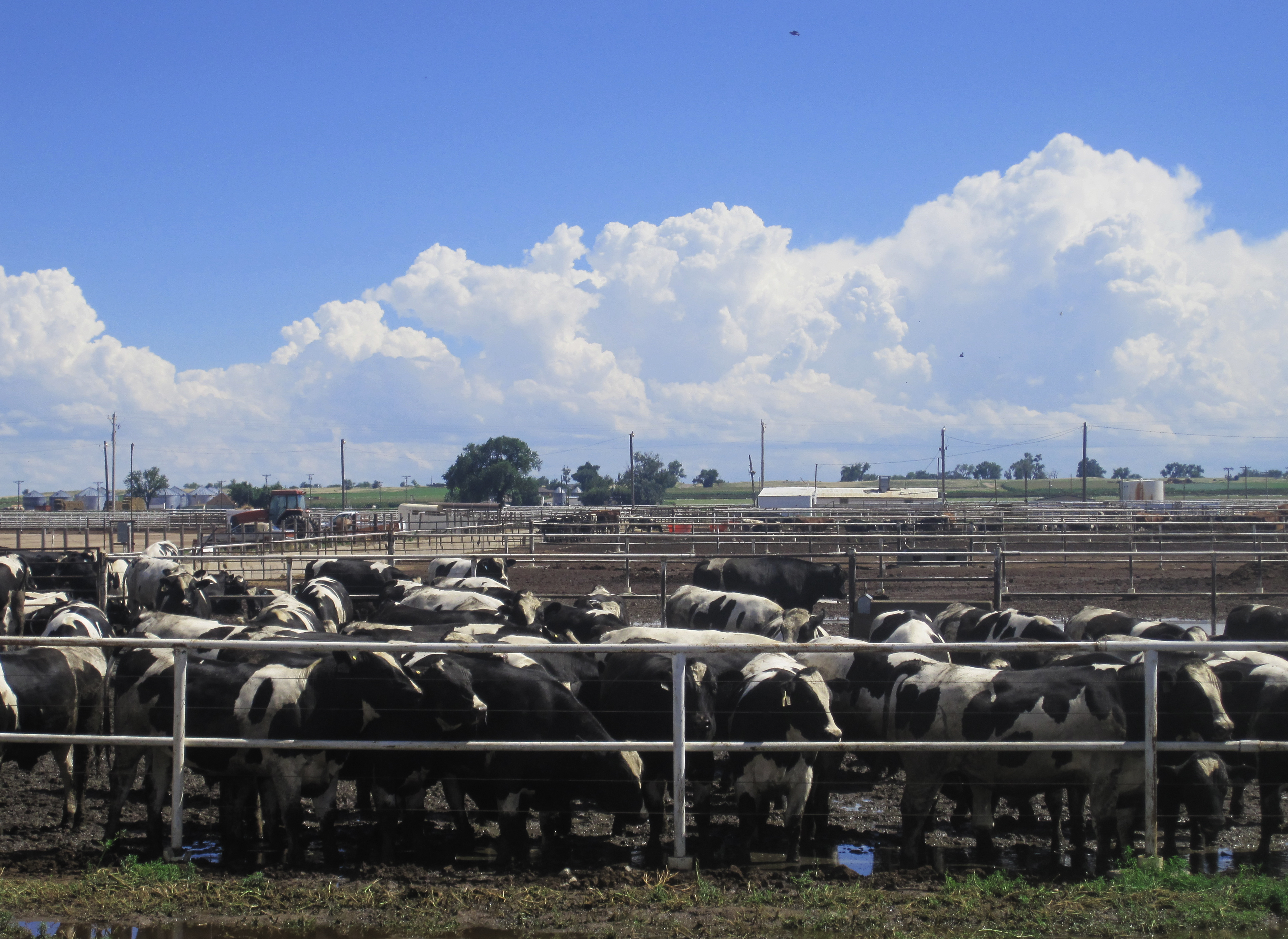 I took photo with Canon camera near Rocky Ford, CO.